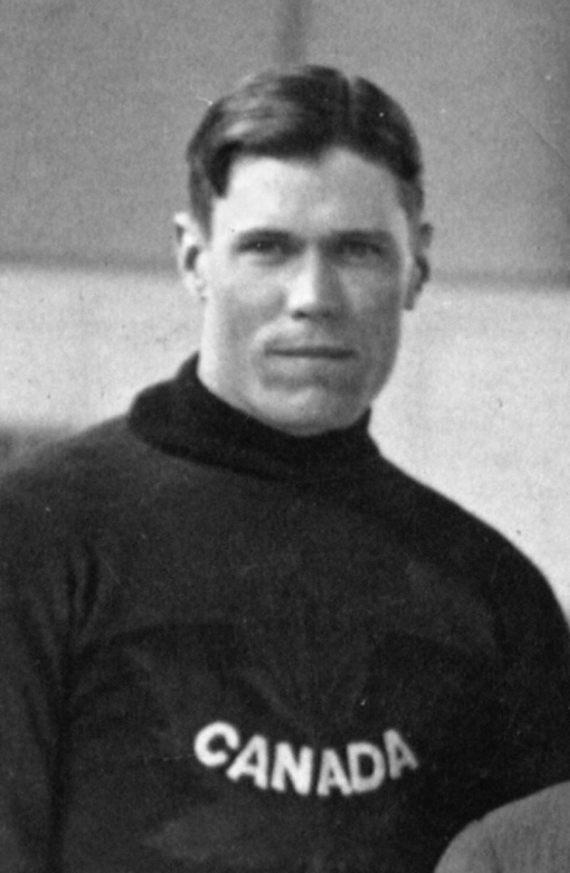 Ice hockey player Frank Fredrickson of the Winnipeg Falcons representing the Canadian national ice hockey team at the 1920 Summer Olympics in Antwerp, Belgium. The picture is a crop out of a larger team photo taken inside the ice rink Palais de Glace d'Anvers. The ice hockey tournament at the 1920 summer Olympics took place between April 23 and April 29. The canadian team, of which Frank Fredrickson was team captain, won gold medals at the games.